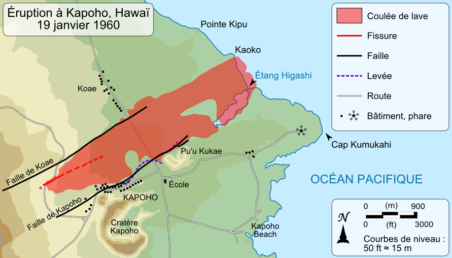 Map of the lava flow the january 19, 1960 during the 1960 Kilauea eruption, Hawaii, United States